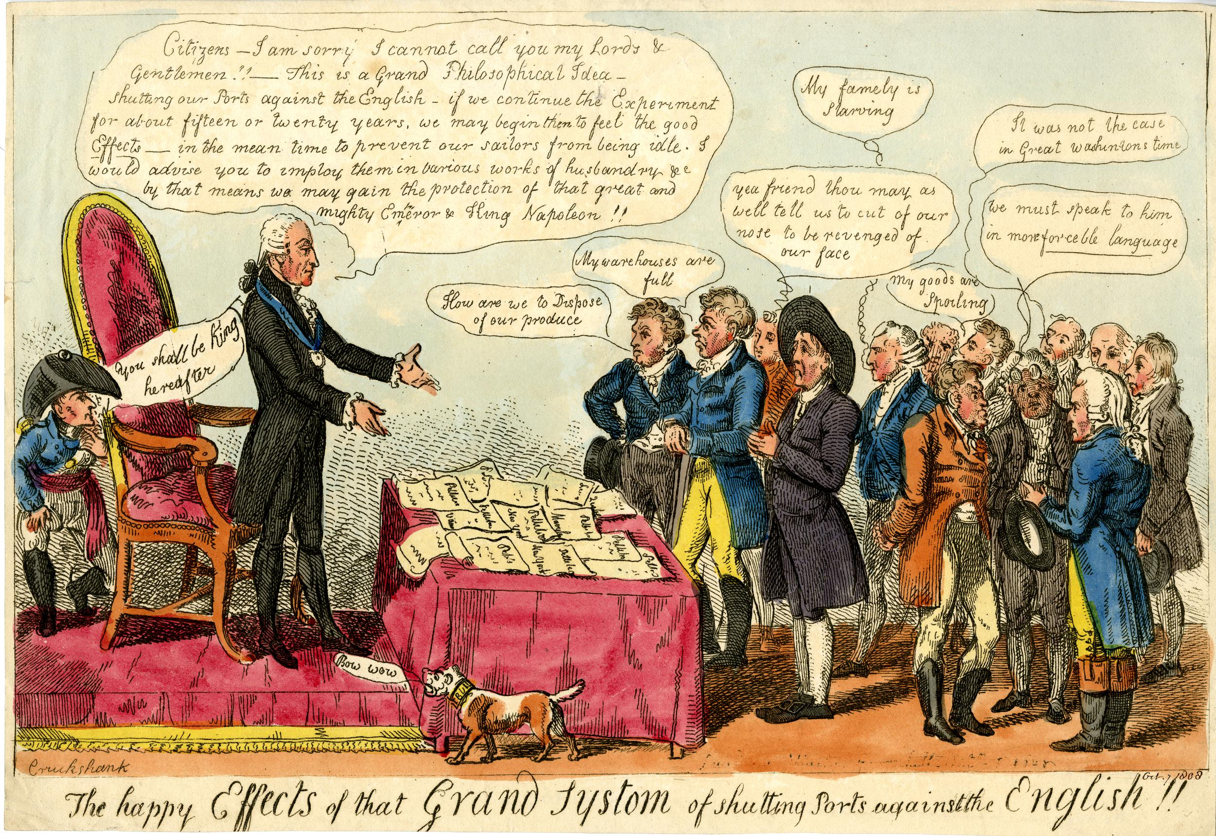 "The happy effects of that grand systom of shutting ports against the English!!," political cartoon showing American President Thomas Jefferson addressing a group of disgruntled men. Napoleon crouches behind Jefferson's chair, saying "You shall be King hereafter." Jefferson is defending his embargo on shipments to England, a move which ultimately led to the War of 1812. 233 mm x 337 mm. Courtesy of the British Museum, London.